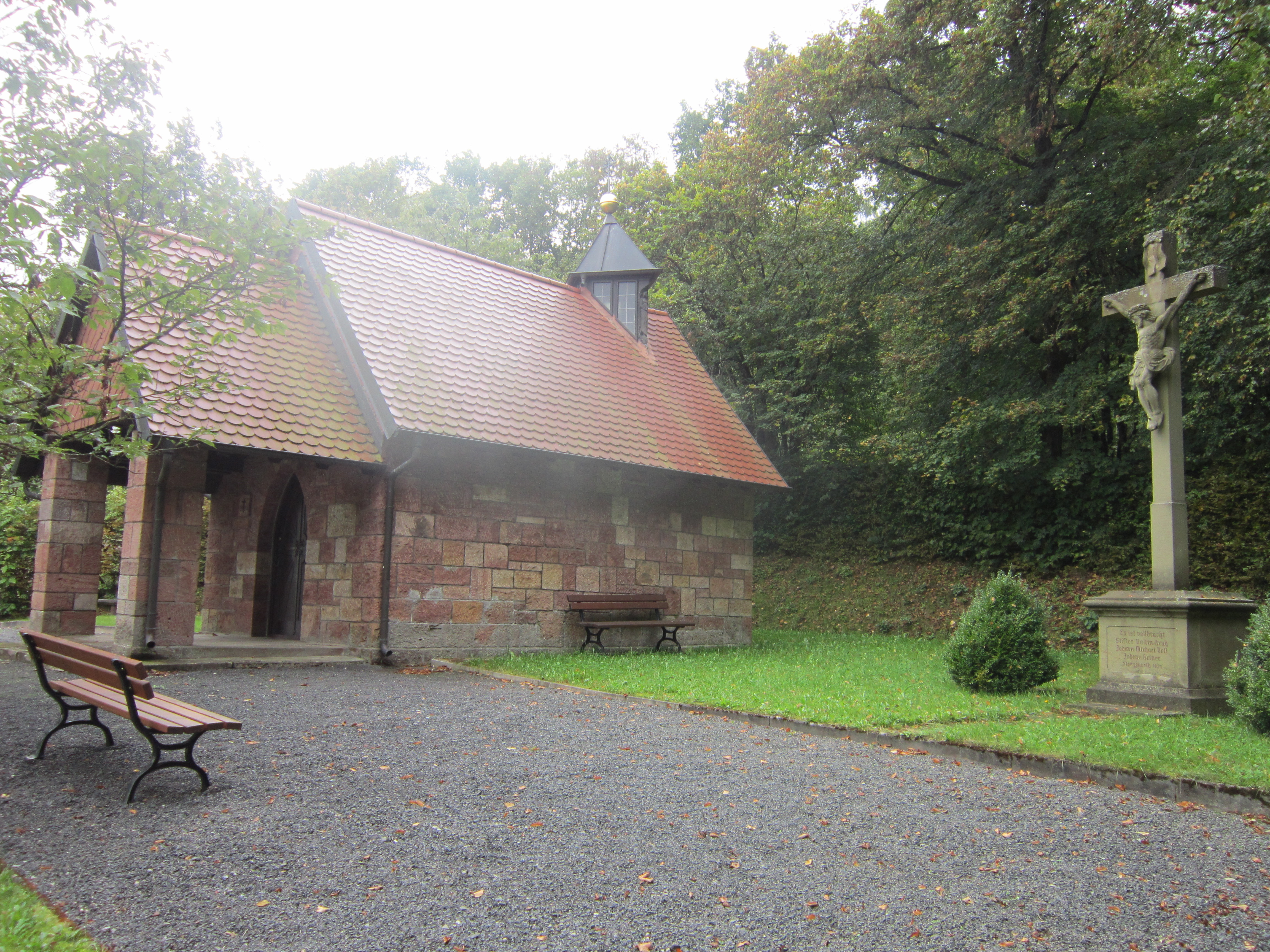 Heimkehrerkapelle in Stangenroth, a quarter of the German town of Burkardroth in Lower Franconia (Bavaria).